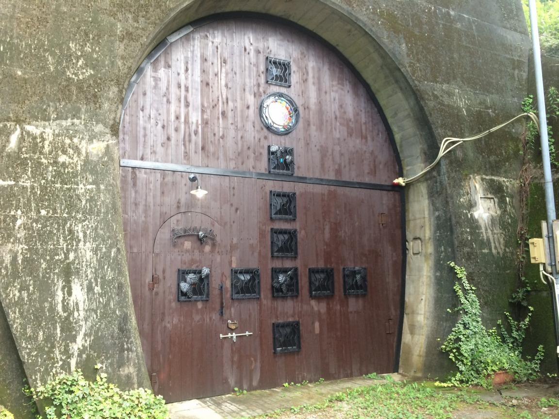 wine cellar (formerly tunnel of ex Japanese National Railways Sakuma Line, old planning railway)